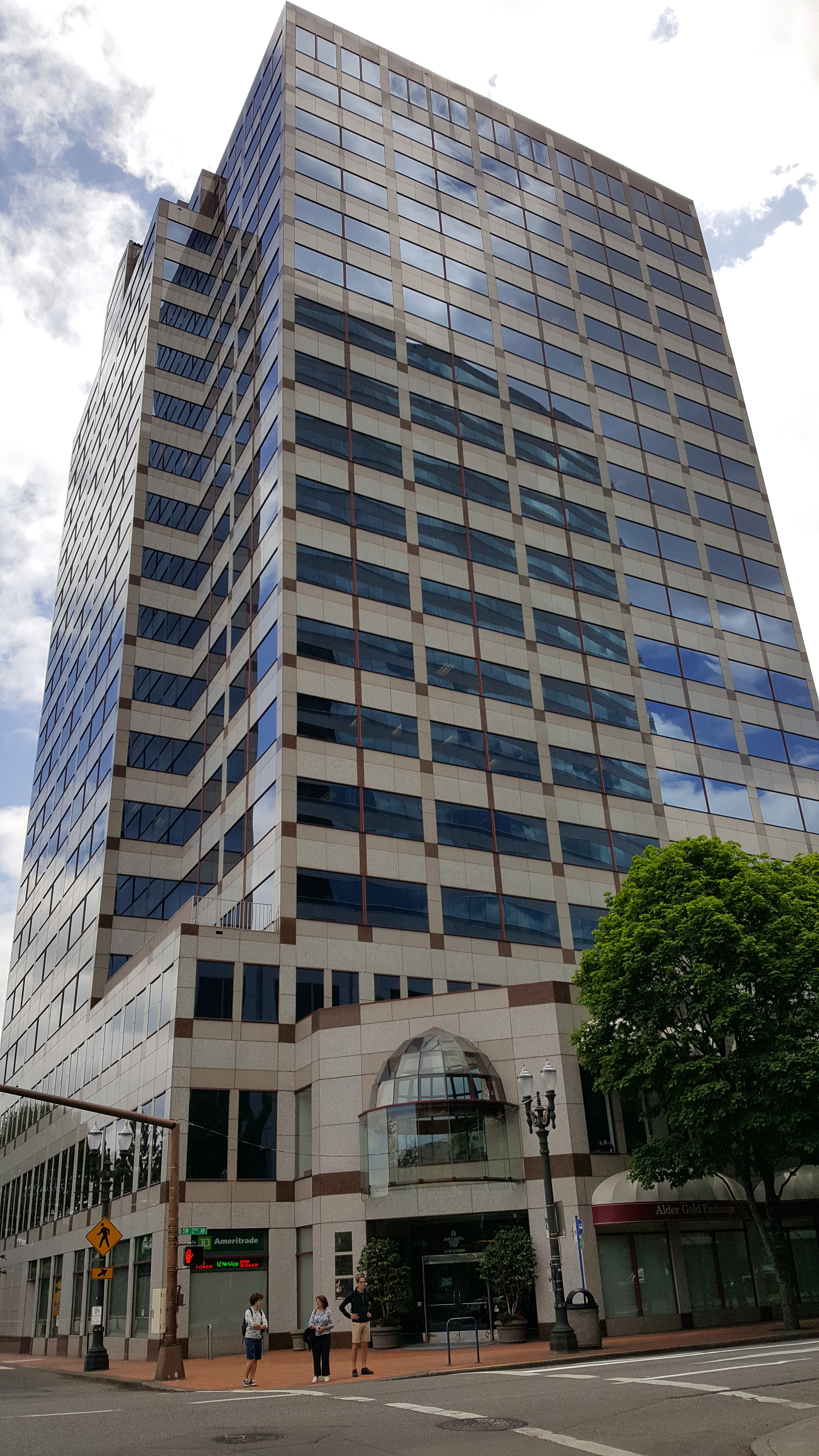 Bank of America Financial Center